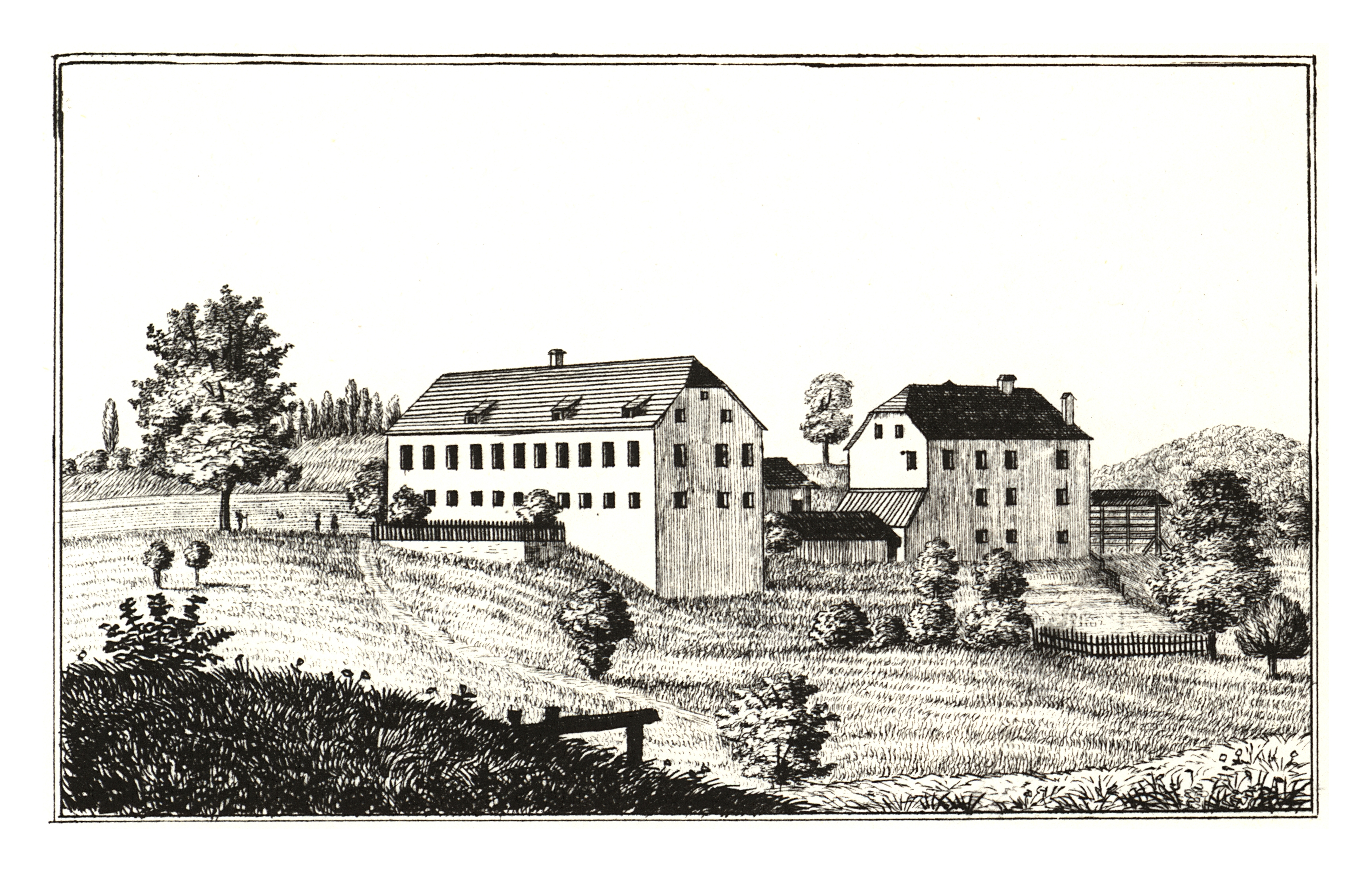 J. F. Kaiser - lithographirte Ansichten der Steyermärkischen Städte, Märkte und Schlösser, Graz 1824-1833 Joseph Franz Kaiser (1786–1859) Alternative names J. F. KaiserDescriptionAustrian printer and editorDate of birth/death 11 March 1786 19 September 1859Location of birth/death Graz (Styria) GrazAuthority control : Q1499963 VIAF: 30629353 ISNI: 0000 0000 3083 0153 LCCN: n87141671 GND: 129880159 NLP: A24960305 WorldCat creator QS:P170,Q1499963 . Scanprojekt Community Projektbudget 2012 This scan or this PDF-file was created within the GLAM-project Bookscanning, supported by Wikimedia Germany and Wikimedia Austria as a part of the community-project to capture books, documents and pictures which are not eligible to copyright or for which the copyright has expired. This document describes or depicts an object which is located in Austria today. Send requests for uncompressed scans to Hubertl. This work is in the public domain in its country of origin and other countries and areas where the copyright term is the author's life plus 100 years or less. You must also include a United States public domain tag to indicate why this work is in the public domain in the United States. This file has been identified as being free of known restrictions under copyright law, including all related and neighboring rights.